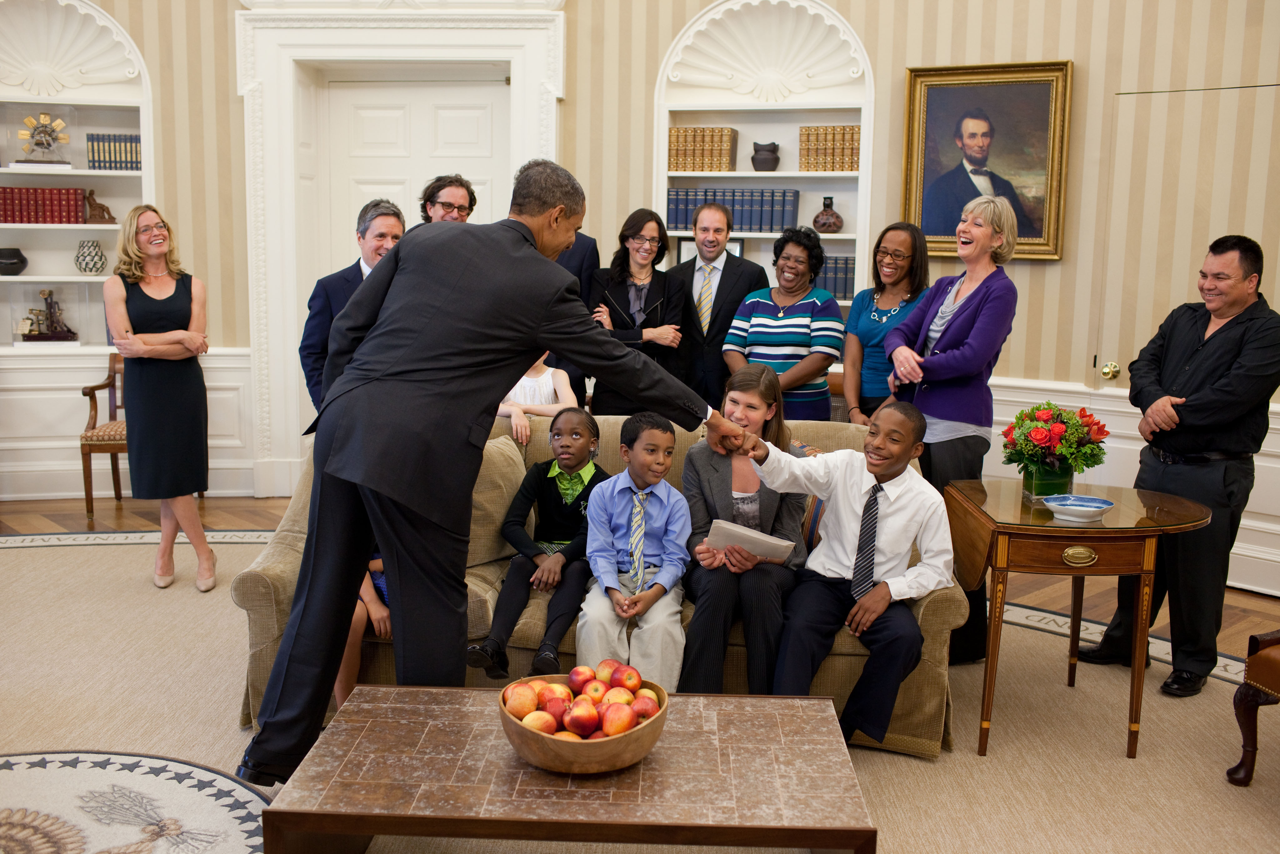 President Barack Obama greets students from the education documentary "Waiting for Superman" in the Oval Office, Oct. 11, 2010. (Official White House Photo by Pete Souza) This official White House photograph is in the public domain from a copyright perspective, so while restrictions such as personality or privacy rights may apply, in general, manipulations are allowed.